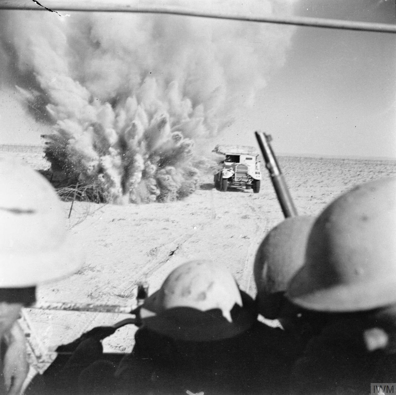 A mine explodes close to a British truck as it carries infantry through enemy minefields and wire to the new front lines.